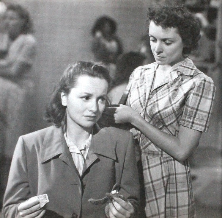 Olivia de Havilland (left) & Katherine Locke in The Snake Pit - publicity still (original image damaged, modified and cropped)